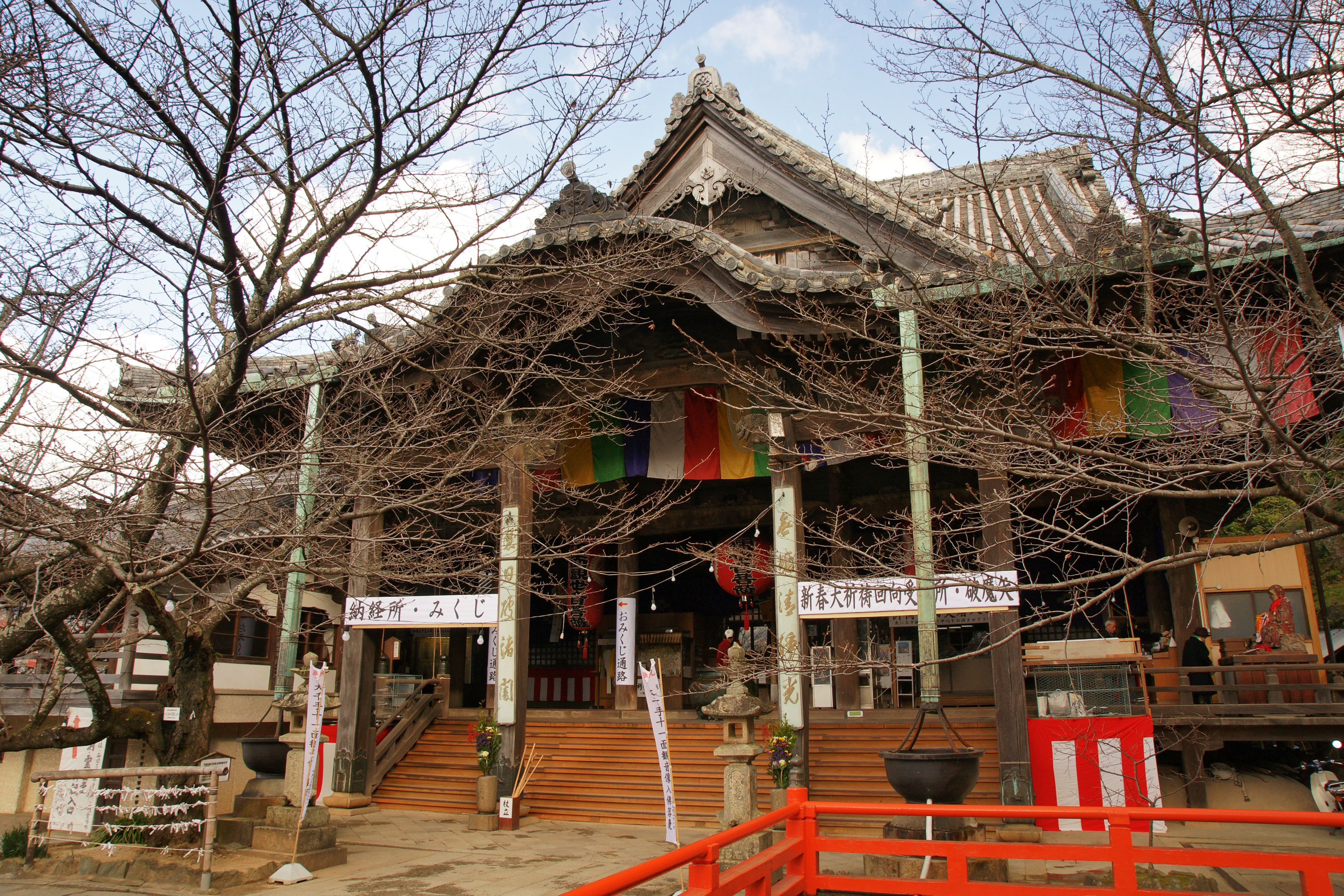 Kimiidera in Wakayama, Wakayama prefecture, Japan